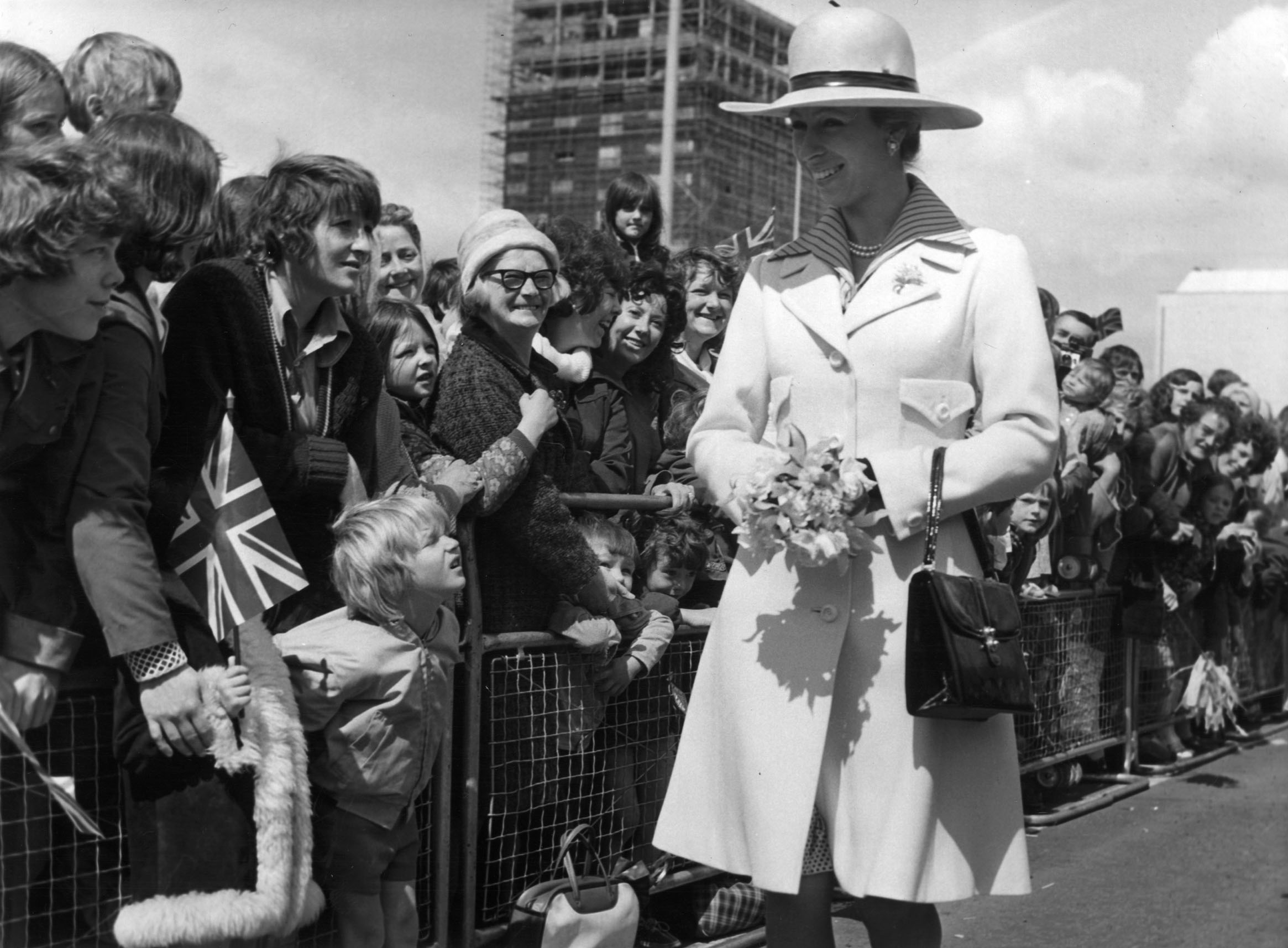 This is a photograph Documenting the visit of Princess Anne to Washington, UK. The photograph was taken in 1974. Reference: 5417/103/1 This collection of images has been assembled in support of the Washington Heritage Festival 2013. The celebration of Washington brings together a variety of different themes. Washington is a Town in the City of Sunderland, Tyne & Wear. It is traditionally associated with Coal Industry, and notably known as the home of the Washington Family, ancestors of the First President of the United States George Washington. However, in 1964 Washington was designated a New Town and drastically changed. With the introduction of new industry such as the Nissan Car Factory Washington experienced a huge redevelopment in both its economy and community. These Photographs are taken from the Records of the Washington Development Corporation; held at Tyne & Wear Archives. The records document this change in industry, landscape and community in Washington between 1964 & 1988, and consist of many photographs. For more information on the Washington Heritage Festival, 21st September 2013 please click here. (Copyright) These images are Crown Copyright. We're happy for you to share these digital images within the spirit of The Commons. Please cite 'Tyne & Wear Archives & Museums' when reusing. Certain restrictions on high quality reproductions and commercial use of the original physical version apply though; if you're unsure please